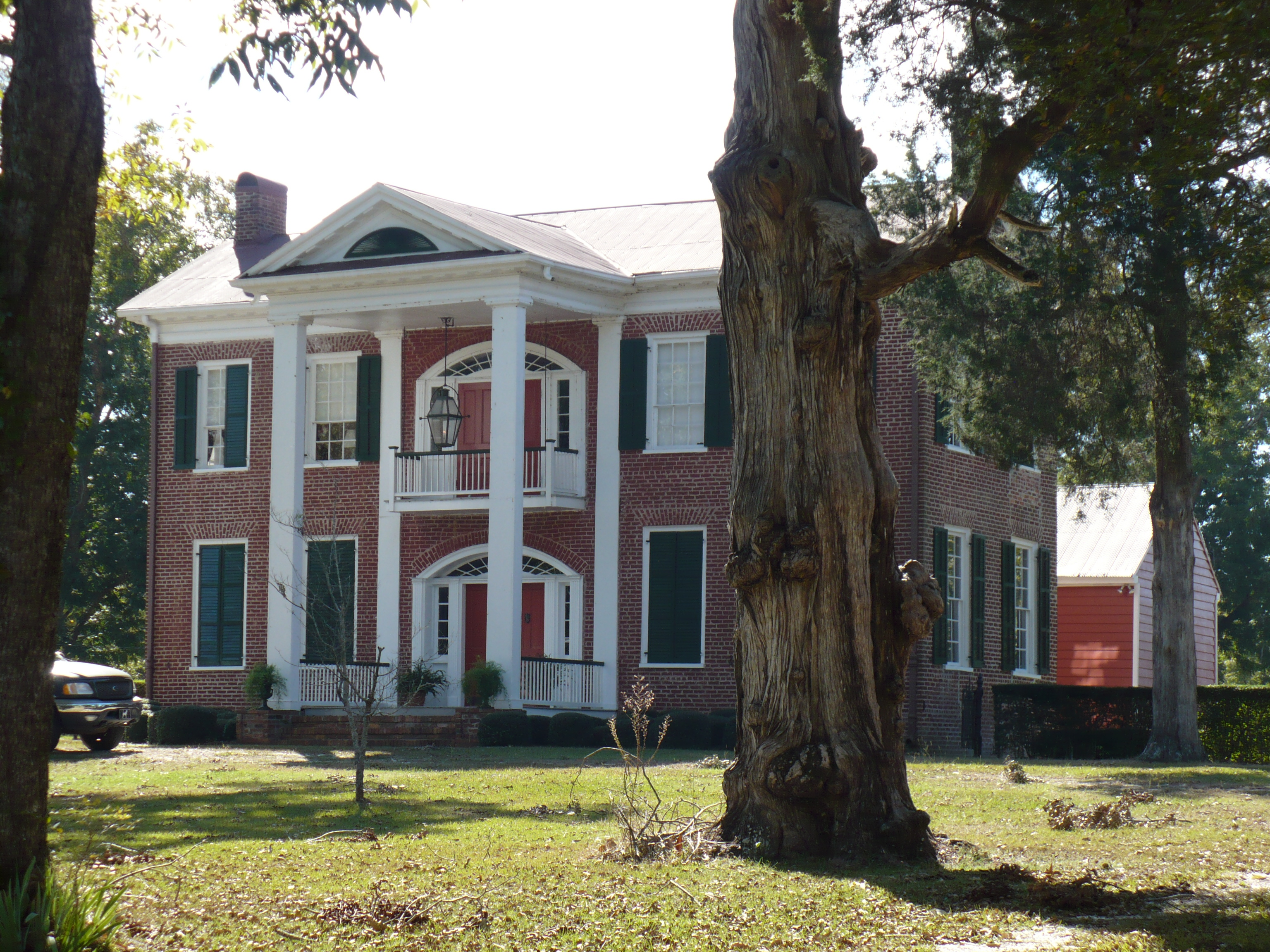 The Tristram Bethea House, also known as Pleasant Ridge Plantation, near Camden, Wilcox County, Alabama. Built in 1842.